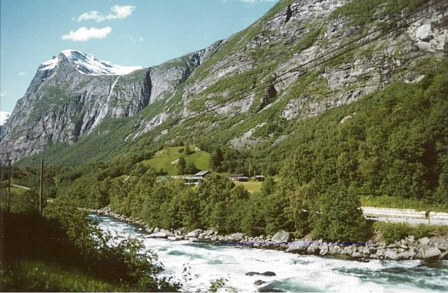 The farm Gikling in the valley Sunndalen in the county Nordmøre on the west coast of Norway. The river "Driva" in front of the farm and the mountain "Hoåsnebba" and the valley "Flatvaddalen" in the far back.